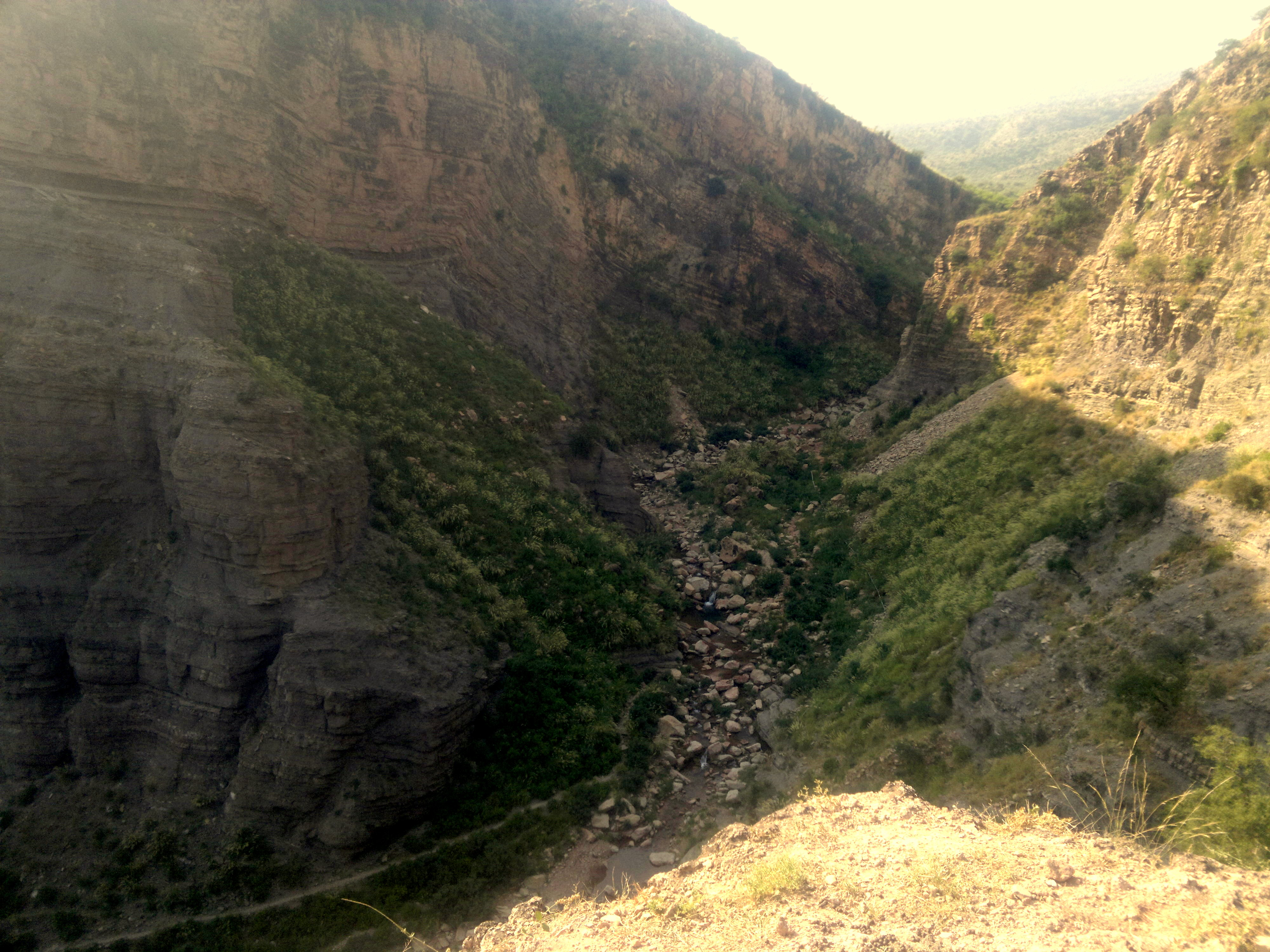 Ruins of Nandana This is a photo of a monument in Pakistan identified as the PB-35